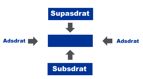 Substrat, Superstrat, Adstrat in historical linguistics